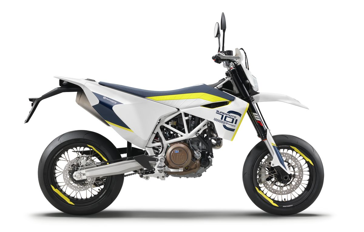 Husqvarna 701 Supermoto